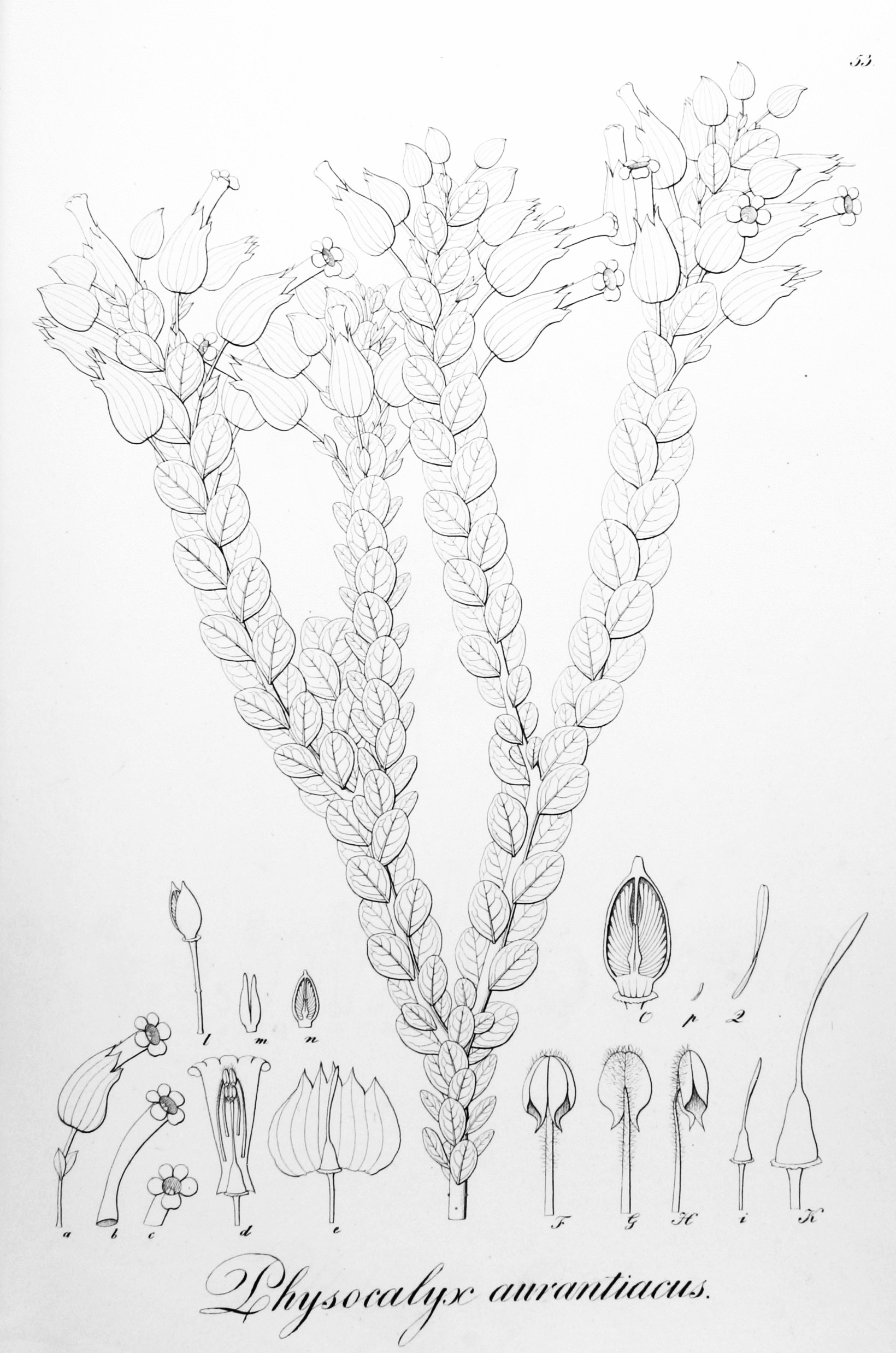 Plate from book